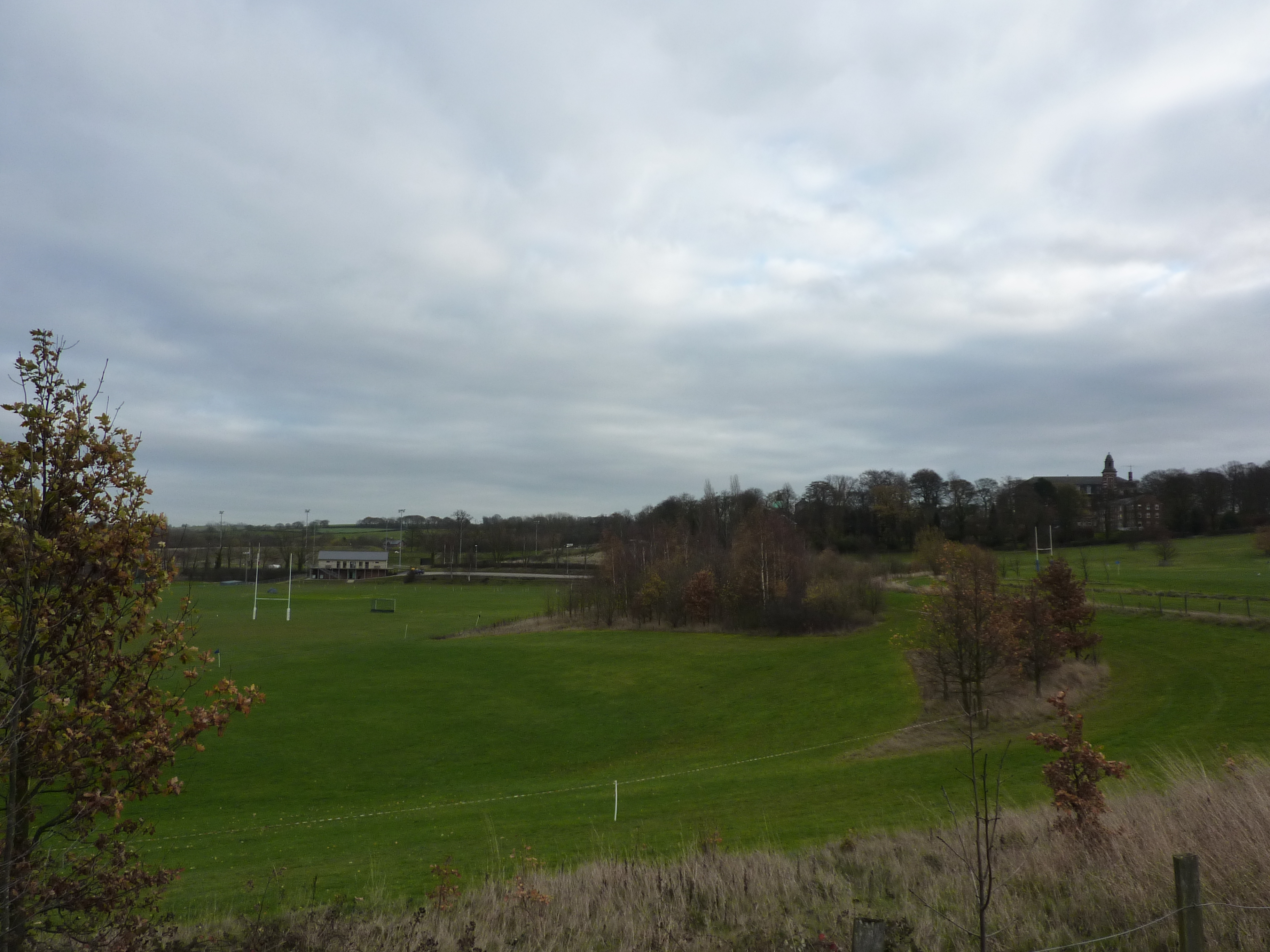 Playing Fields